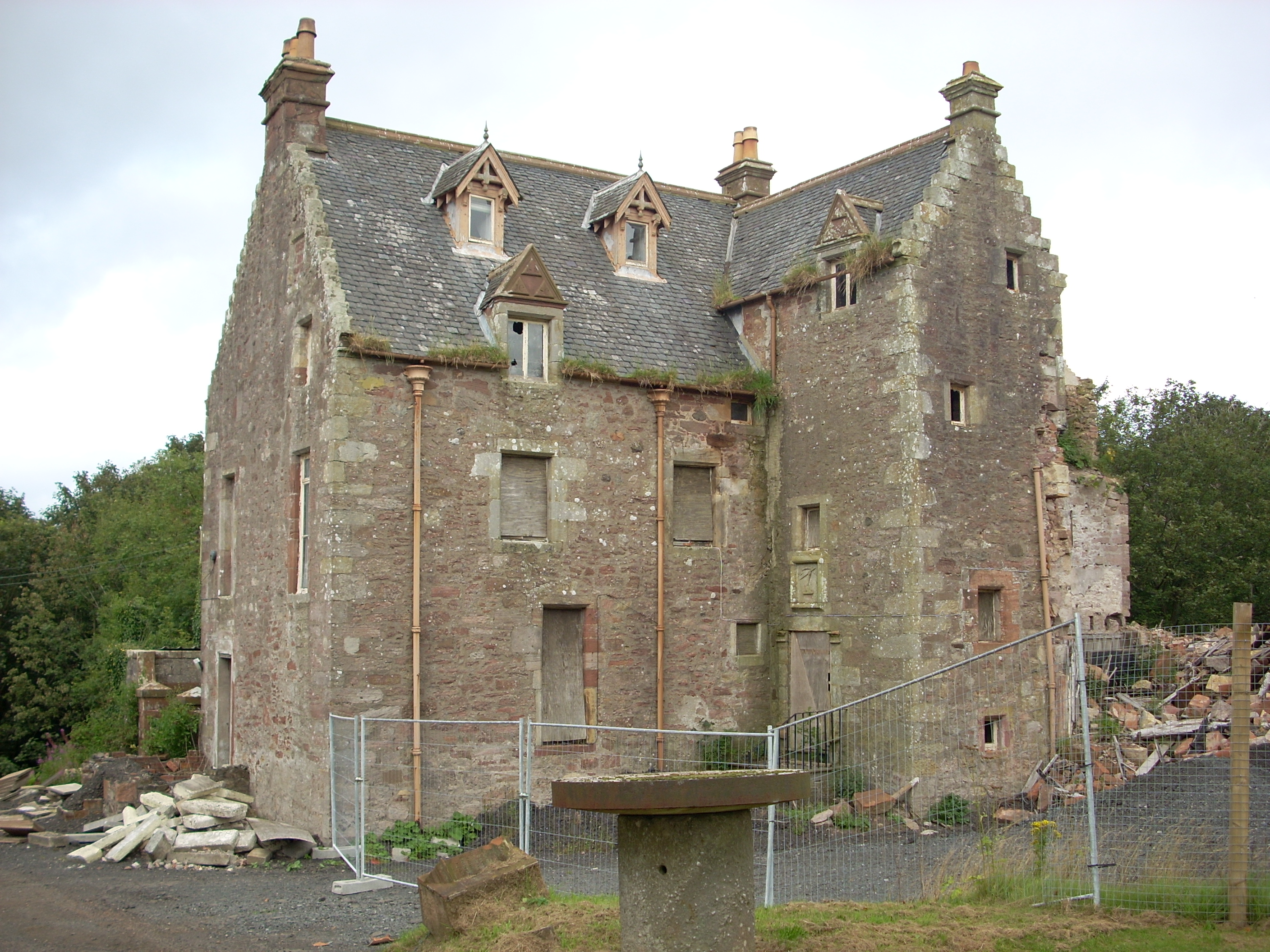 The remains of Crosbie Castle near West Kilbride, North Ayrshire, Scotland. Photo by Dreamer84, taken on 30 August 2007.